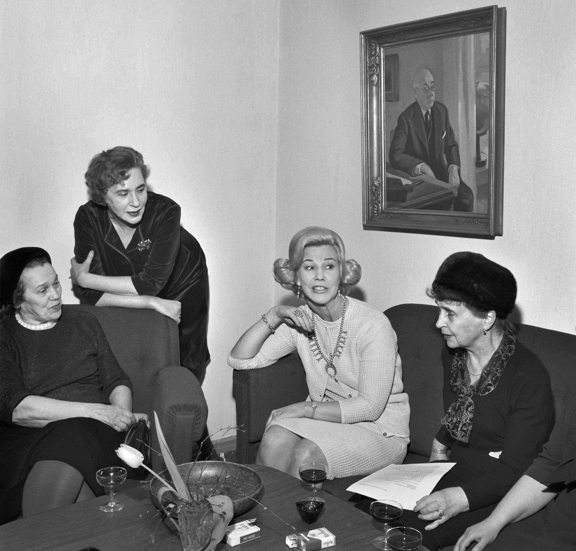 Photograph of the Finnish writers Salme Setälä (left), Helvi Erjakka and Eeva Joenpelto with the First Lady of Finland Sylvi Kekkonen.